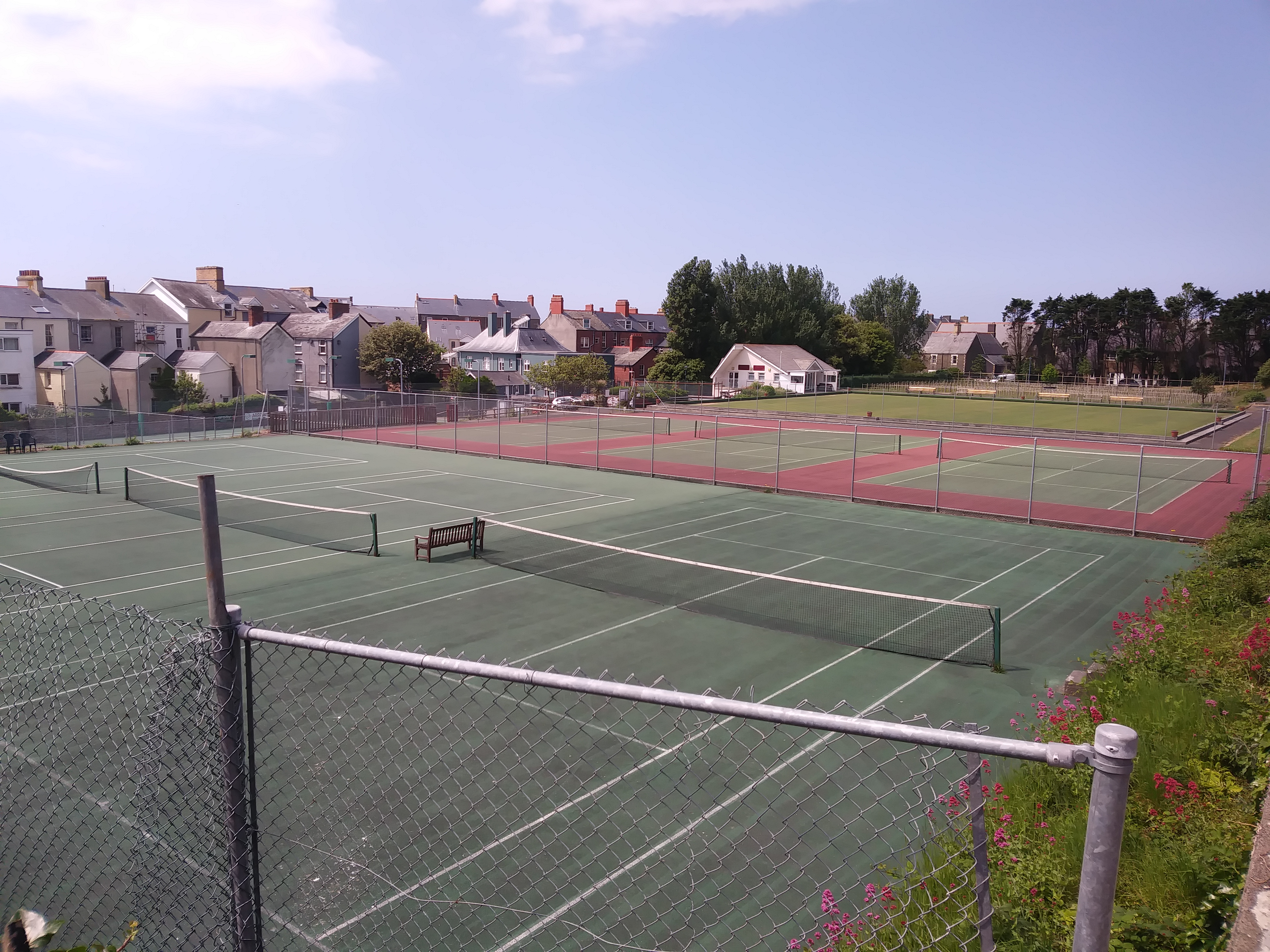 Tennis Courts, Aberystwyth (Queen's Rd from North Rd)